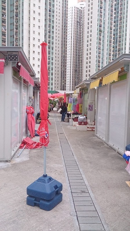 corridor